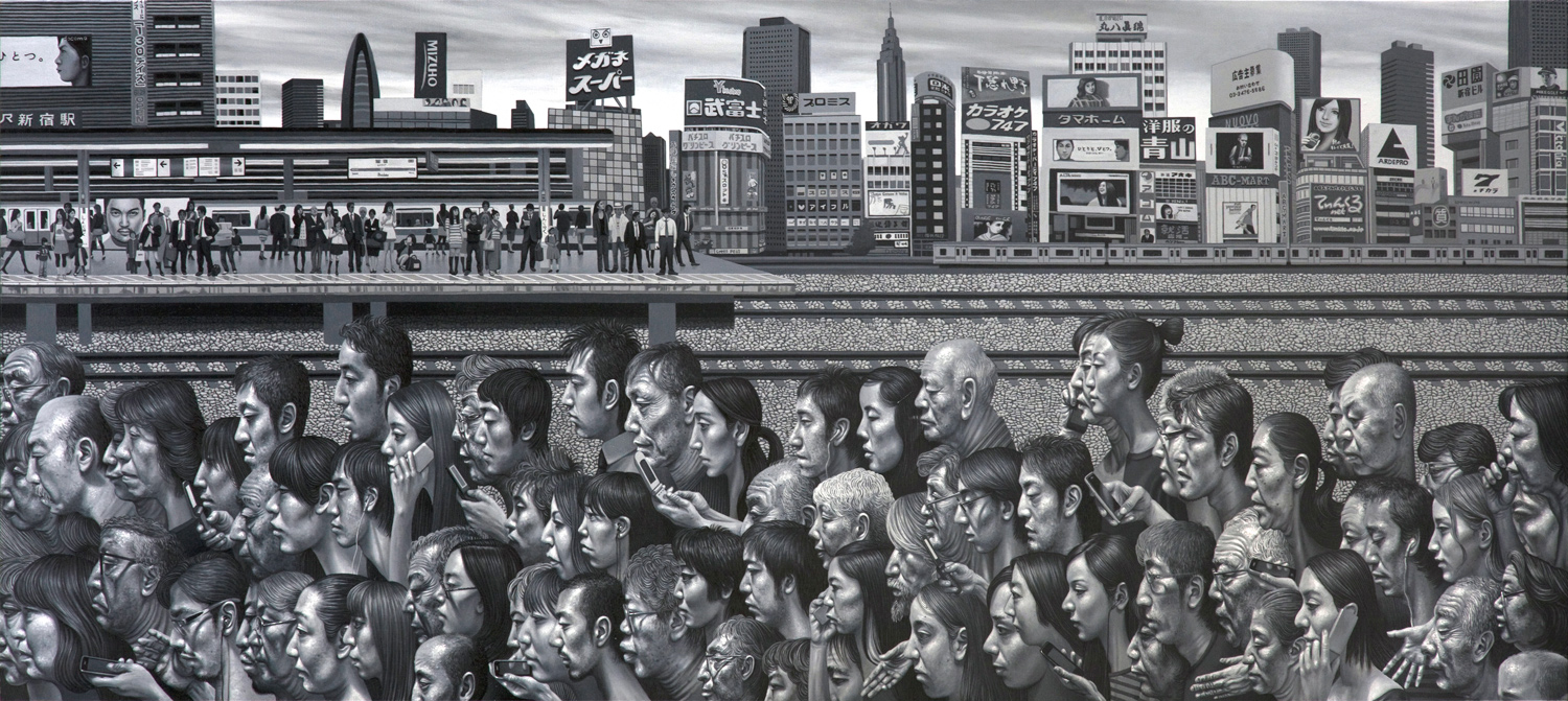 Shinjuku by British artist Carl Randall